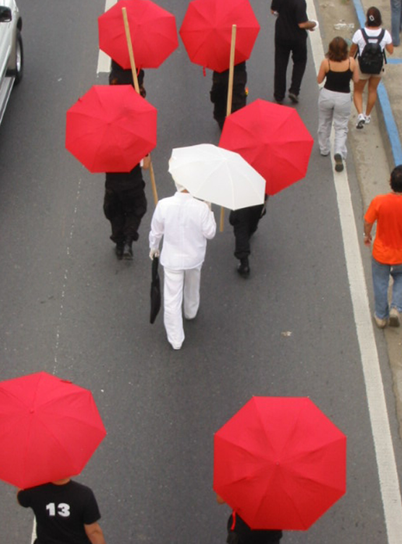 The Anarchist Gardener (Marco Casagrande) march in the 2002 Puerto Rico Biennale, San Juan.